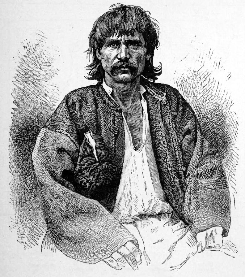 Romanian from Podolia